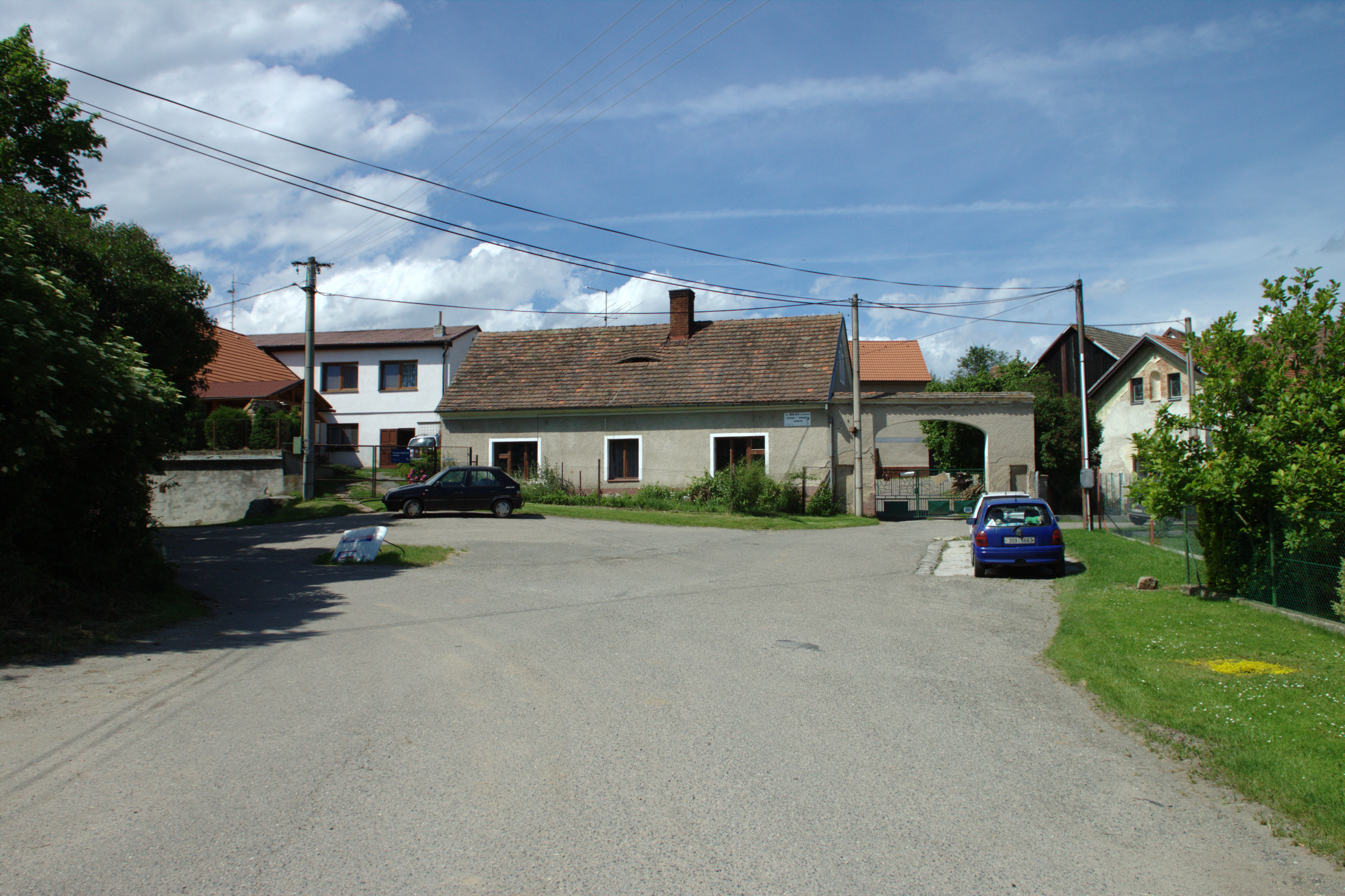 A common in the village of Jírovice, situated west from the town of Bystřice, Benešov District, CZ